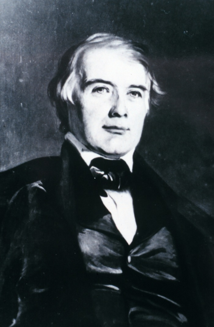 James Pollard Espy (1785-1860), weather scientist. He was appointed the first official Government meteorologist in 1842.